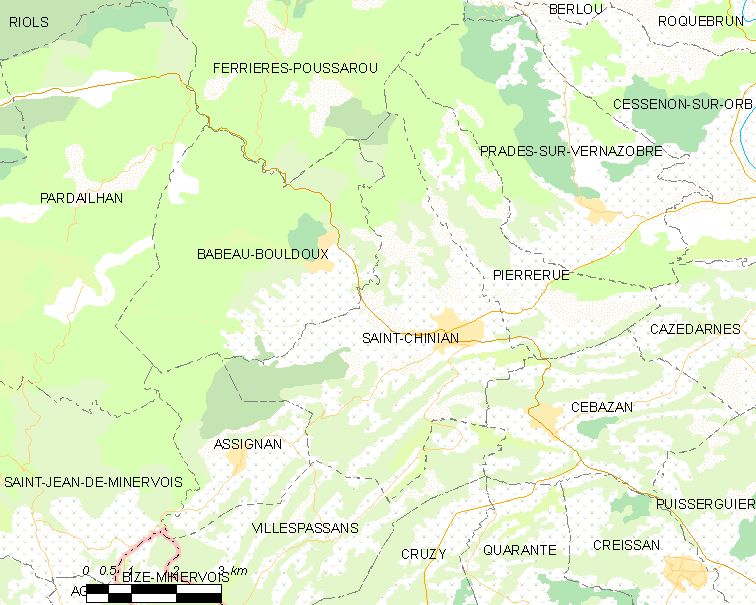 Map commune FR insee code 34245.png - Saint-Chinian